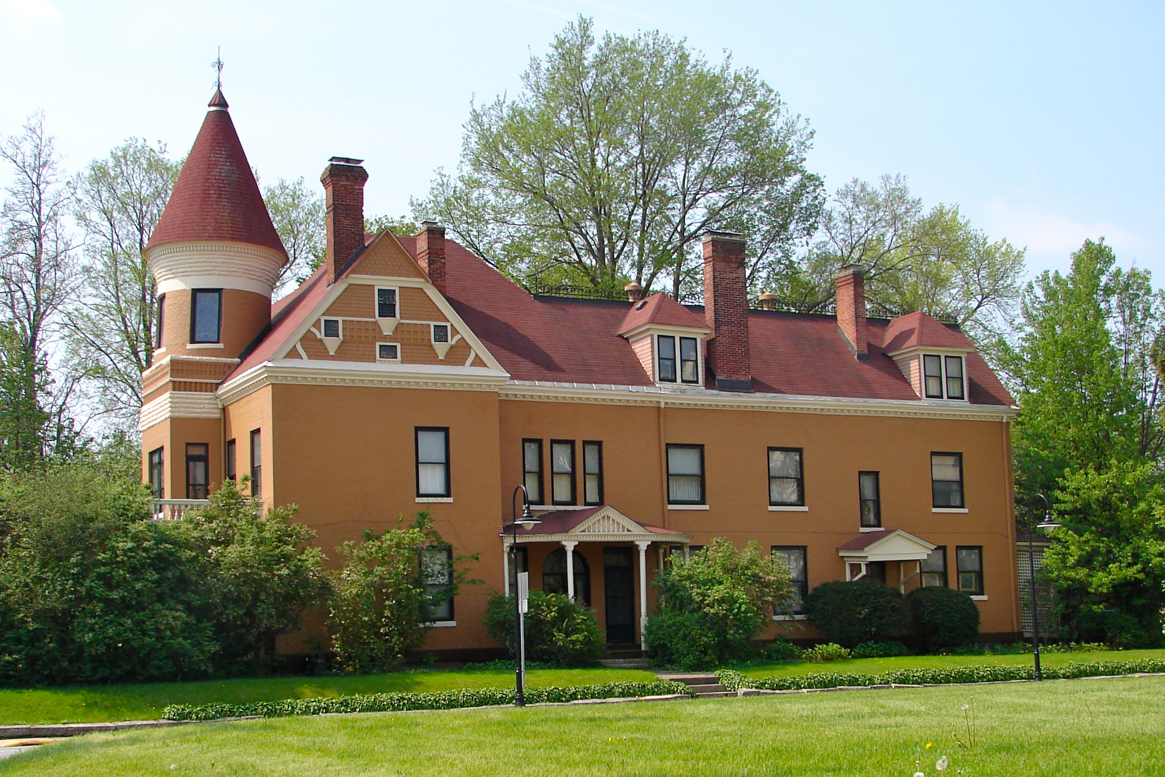 Connor House on the NRHP since August 11, 1988. At 702 Twentieth St., Rock Island , Illinois. An early example of the Queen Anne style in Rock Island. The home is located in the Broadway Historic District.